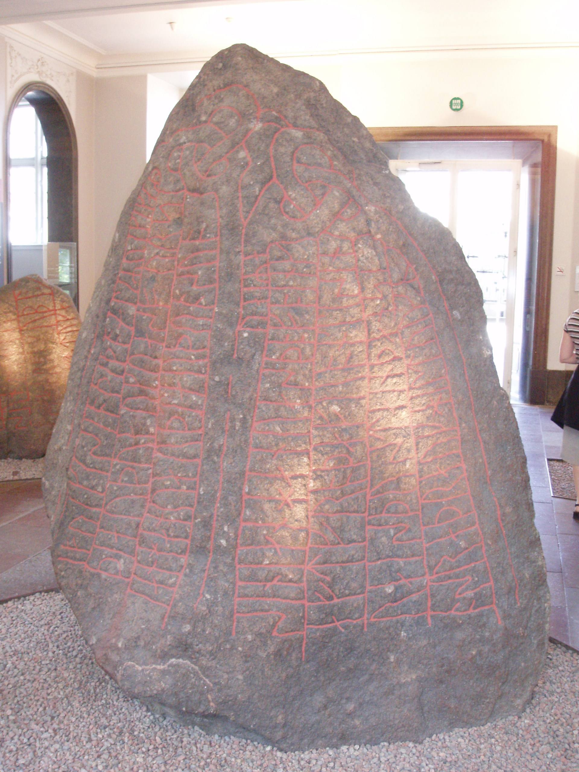 This runestone (Dr 216) was located in Tirsted on the island of Lolland, Denmark. It is now housed in the National Museum of Copenhagen.